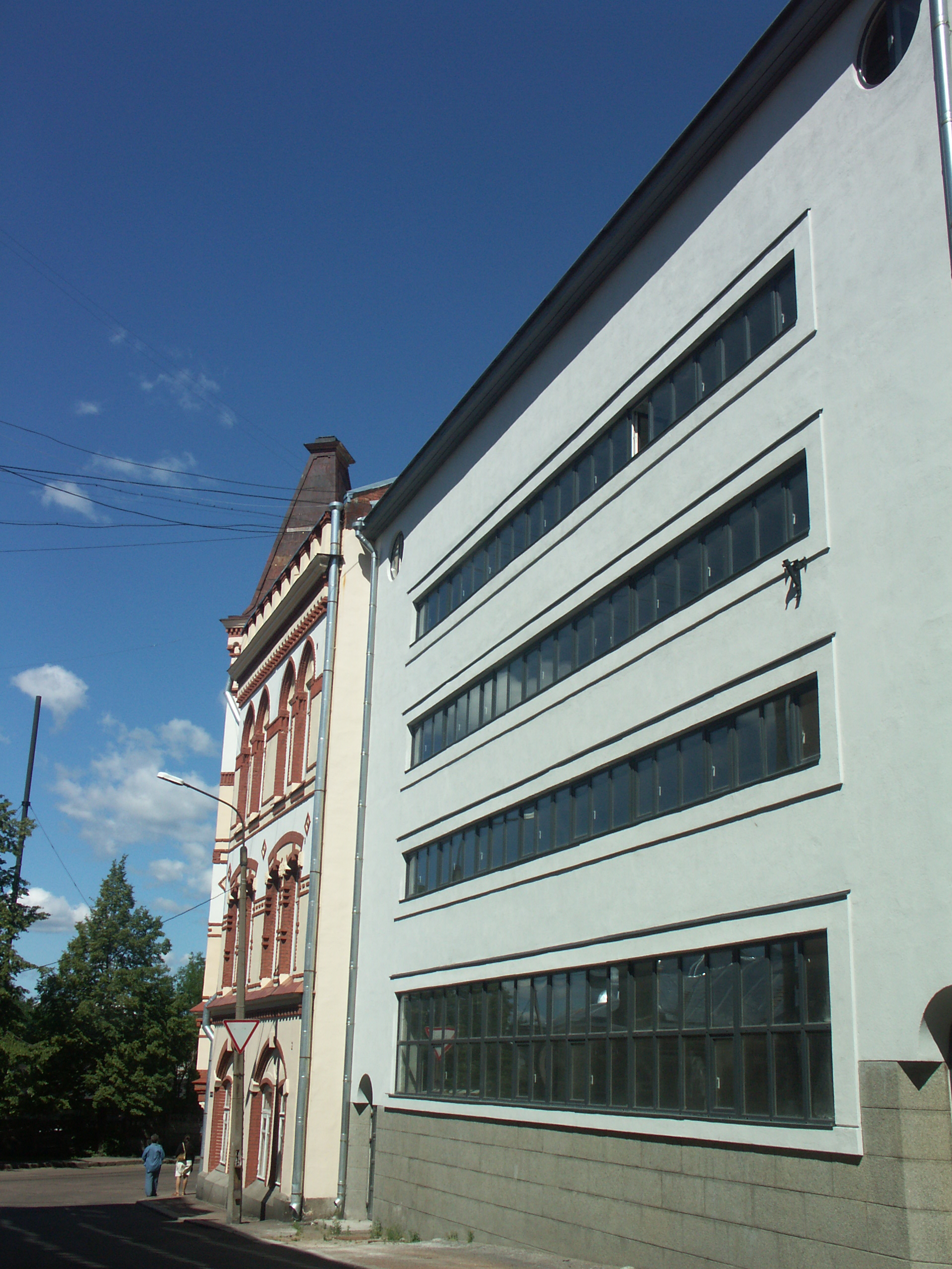 Former Viipurin Panttilaitos Oy building in Vyborg, Russia. Built in 1931. Architect: Uno Ullberg.